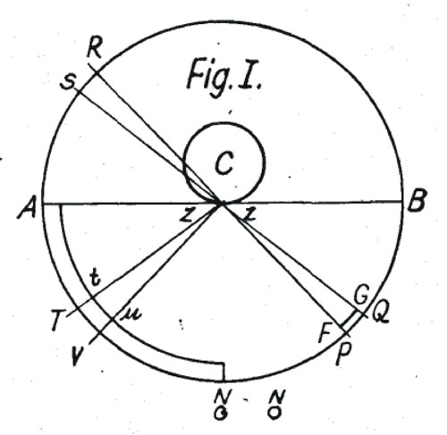 Fatio's Pyramide